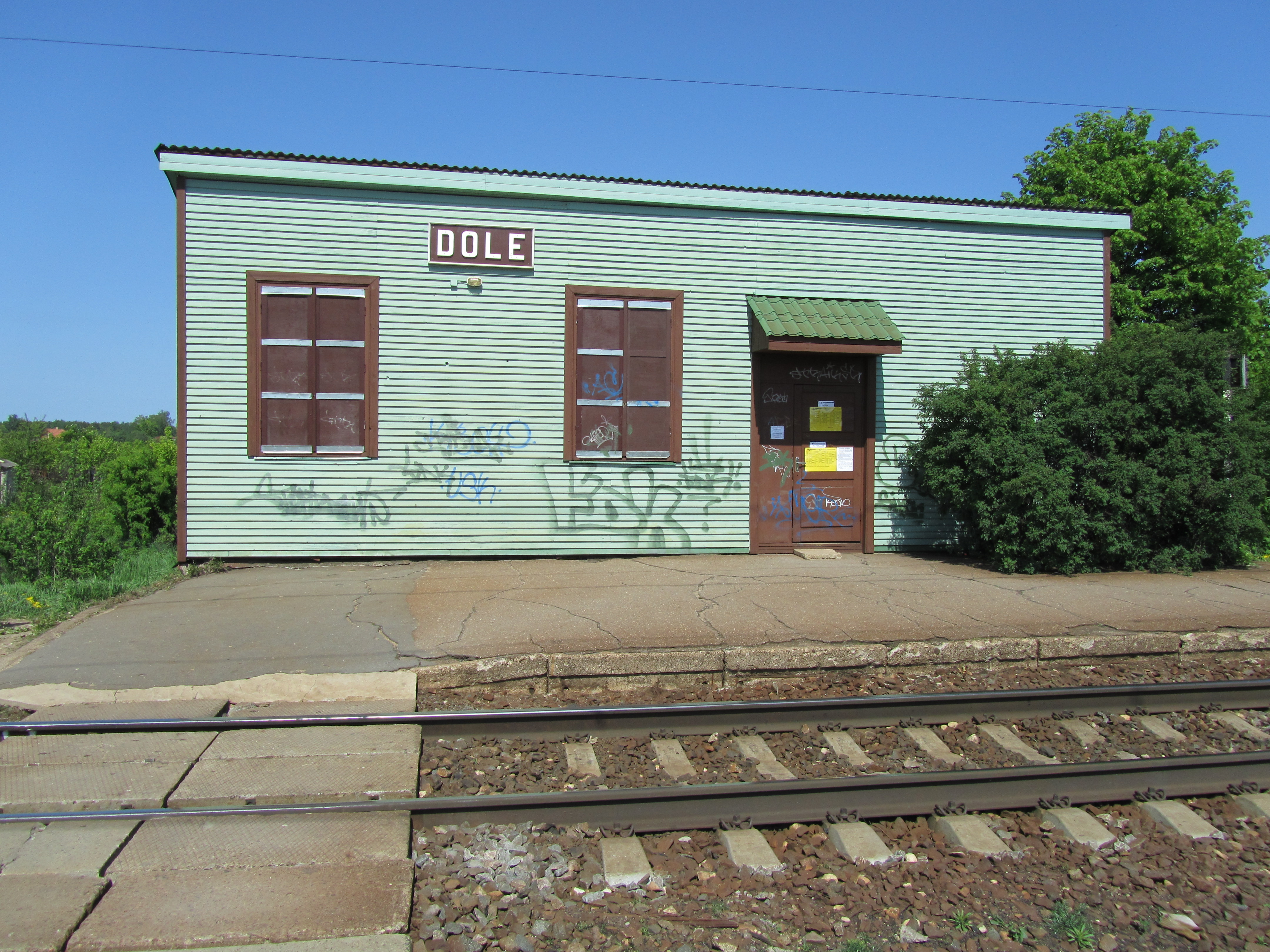 Dole train station (2011)